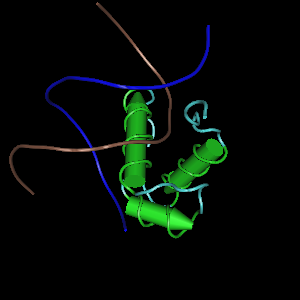 Solution Structure Of The Dna Complex Of Human Trf1